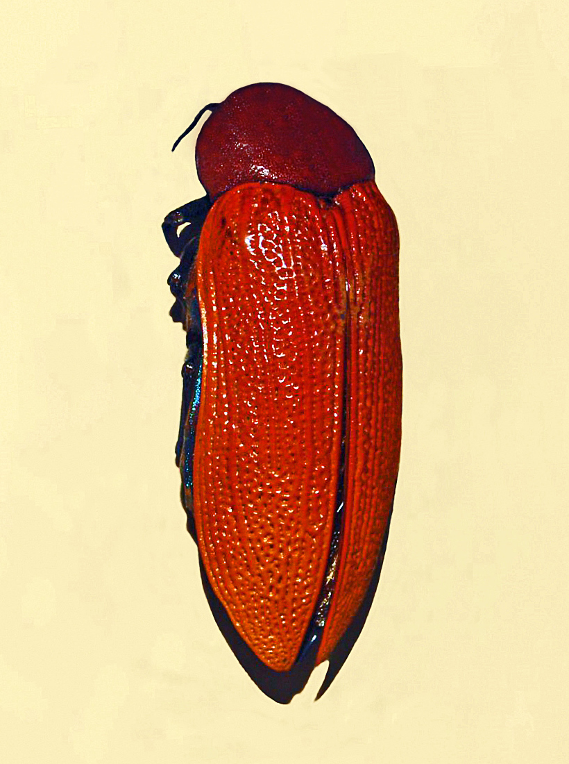 Julodimorpha bakewelli from Australia